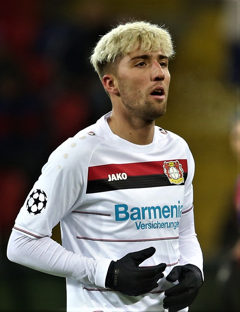 Kevin Kampl